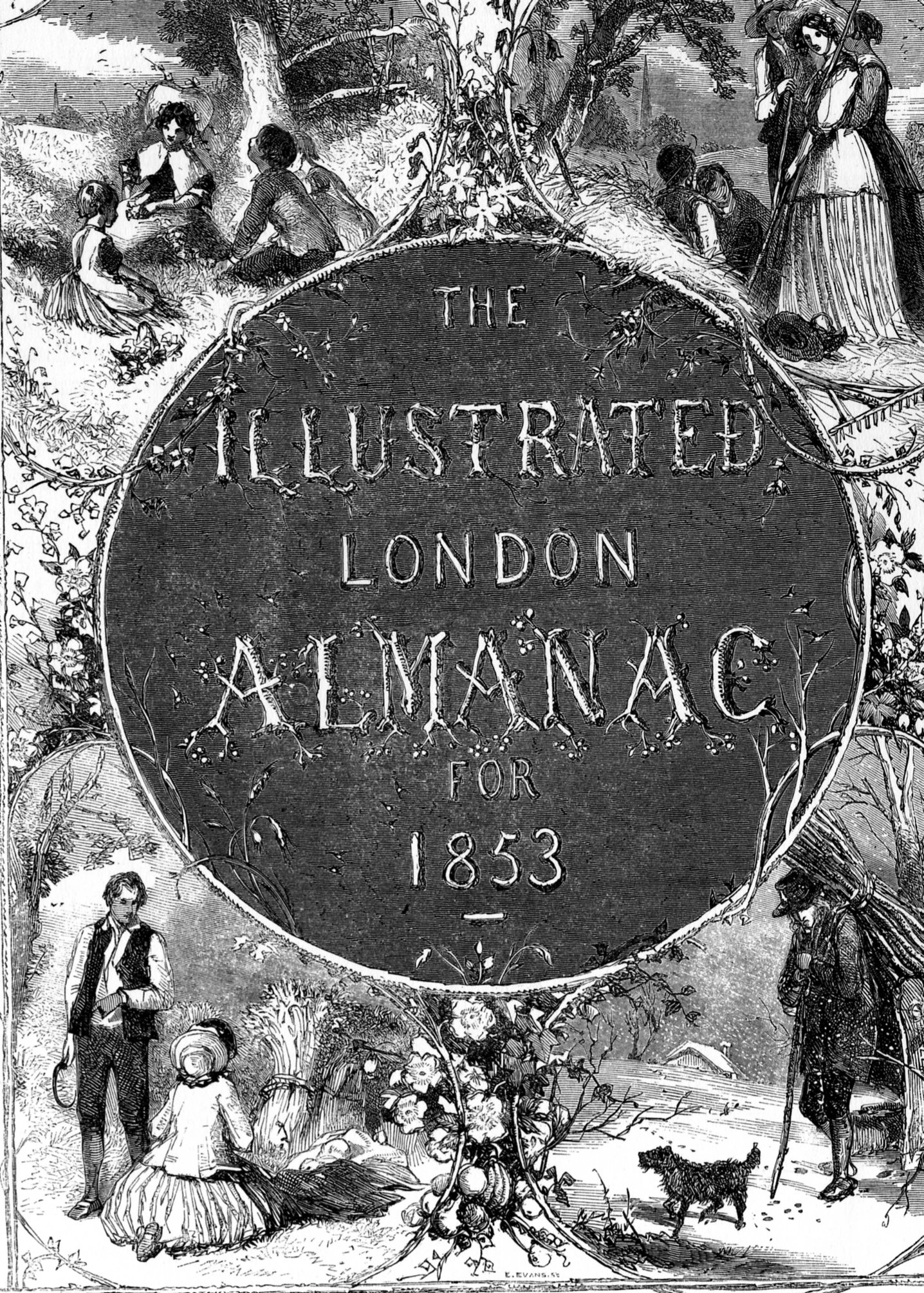 Cover page of The Illustrated London Almanac for 1853. Scanned by uploader from McLean, Ruri; Evans, Edmunds (1967) The Reminiscences of Edmund Evans, Wood Engraver and Colour Printer, 1826–1905, Oxford: Oxford University Press, p. xi